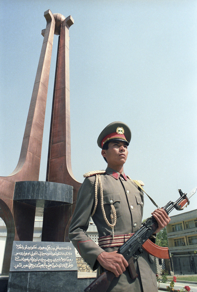 “Guard of Honor at Monument to Soviet soldiers-internationalists”. A guard of honor at the Monument to Soviet soldiers-internationalists. Democratic Republic of Afghanistan.